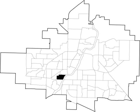 A map showing the location of the King George neighbourhood in Saskatoon, Saskatchewan, Canada.